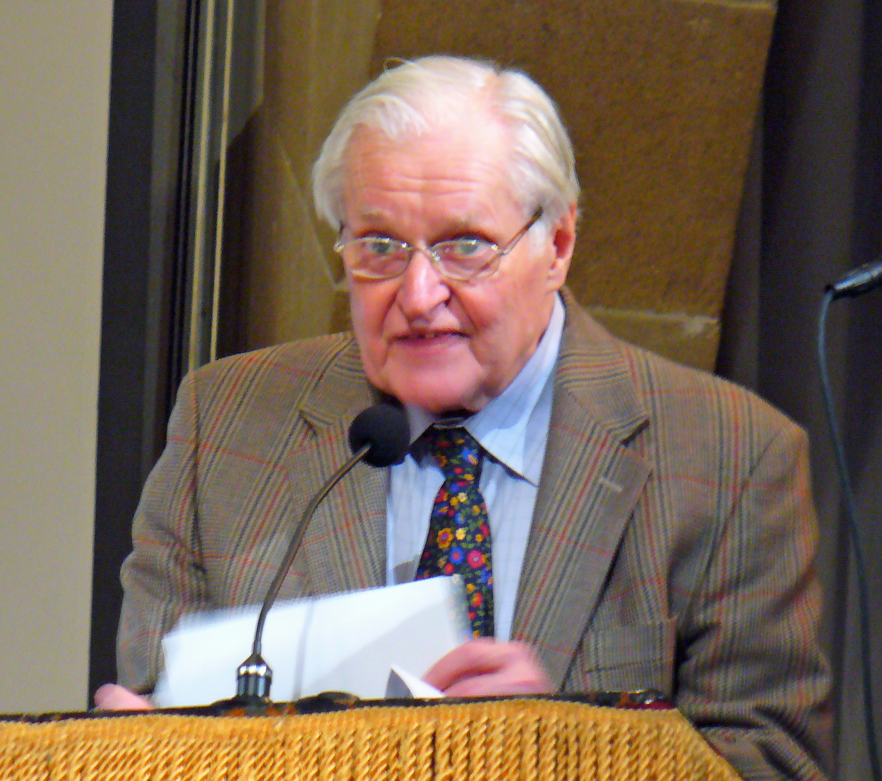 John Ashbery